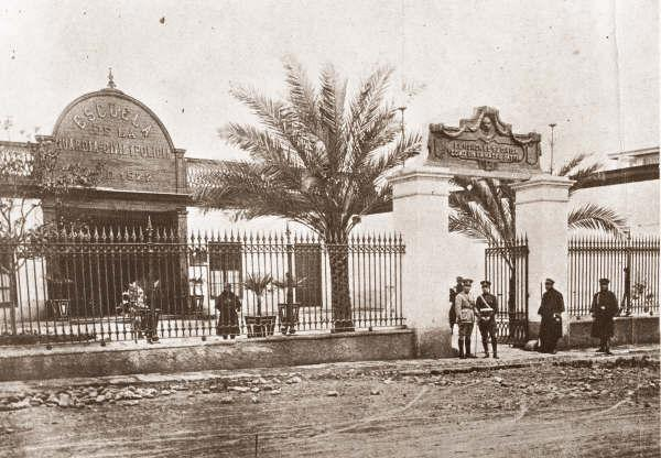 School of the Civil Guard and Policía at the Los Incas Avenue.